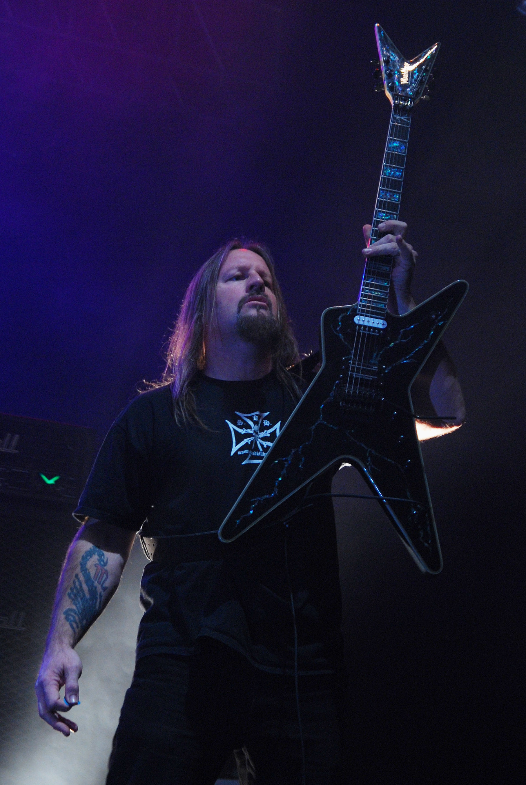 Derek Tailer "Skull" from Overkill during Metalmania 2008 festival